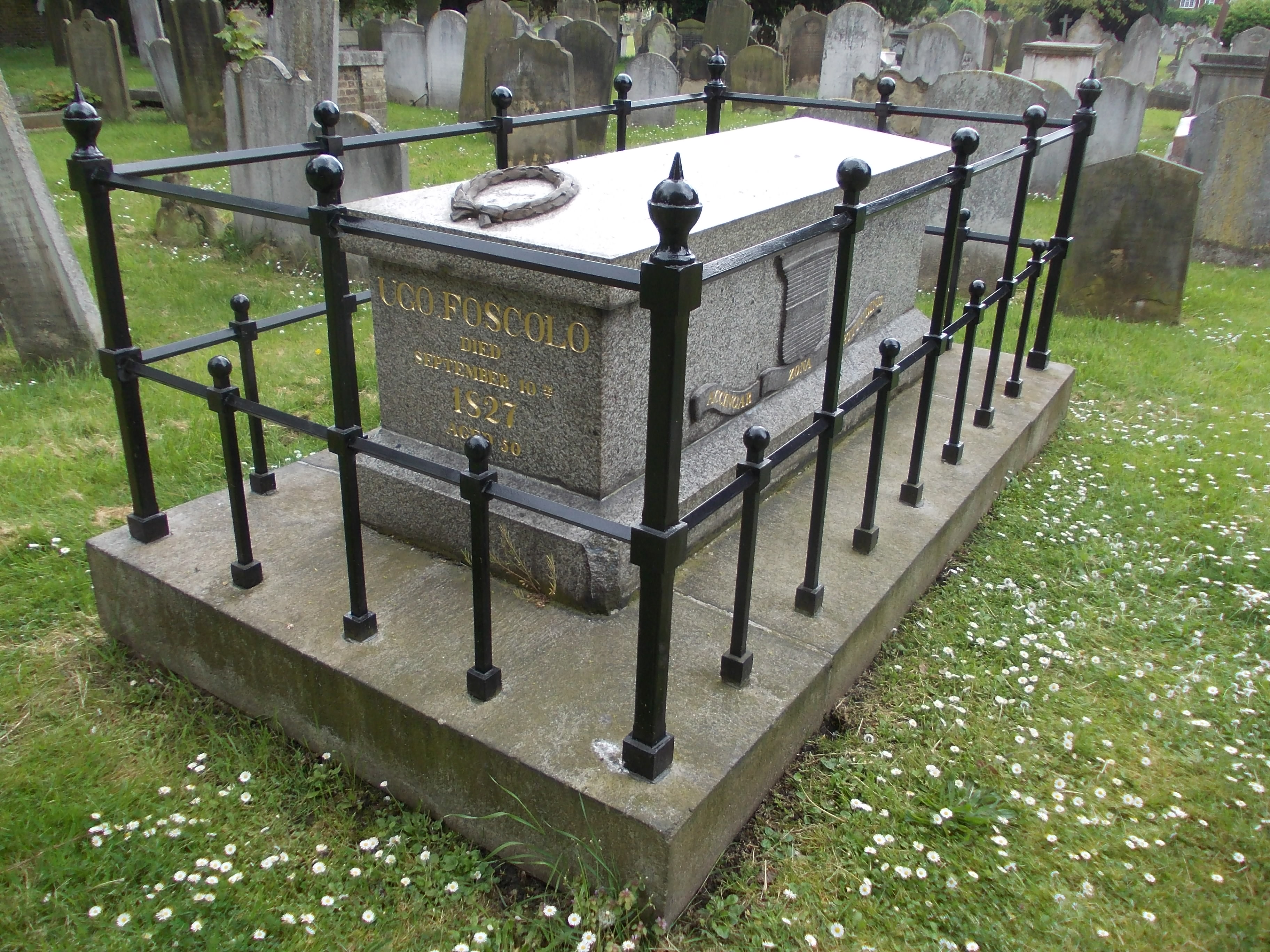 Memorial to Ugo Foscolo in St Nicholas Churchyard, Chiswick